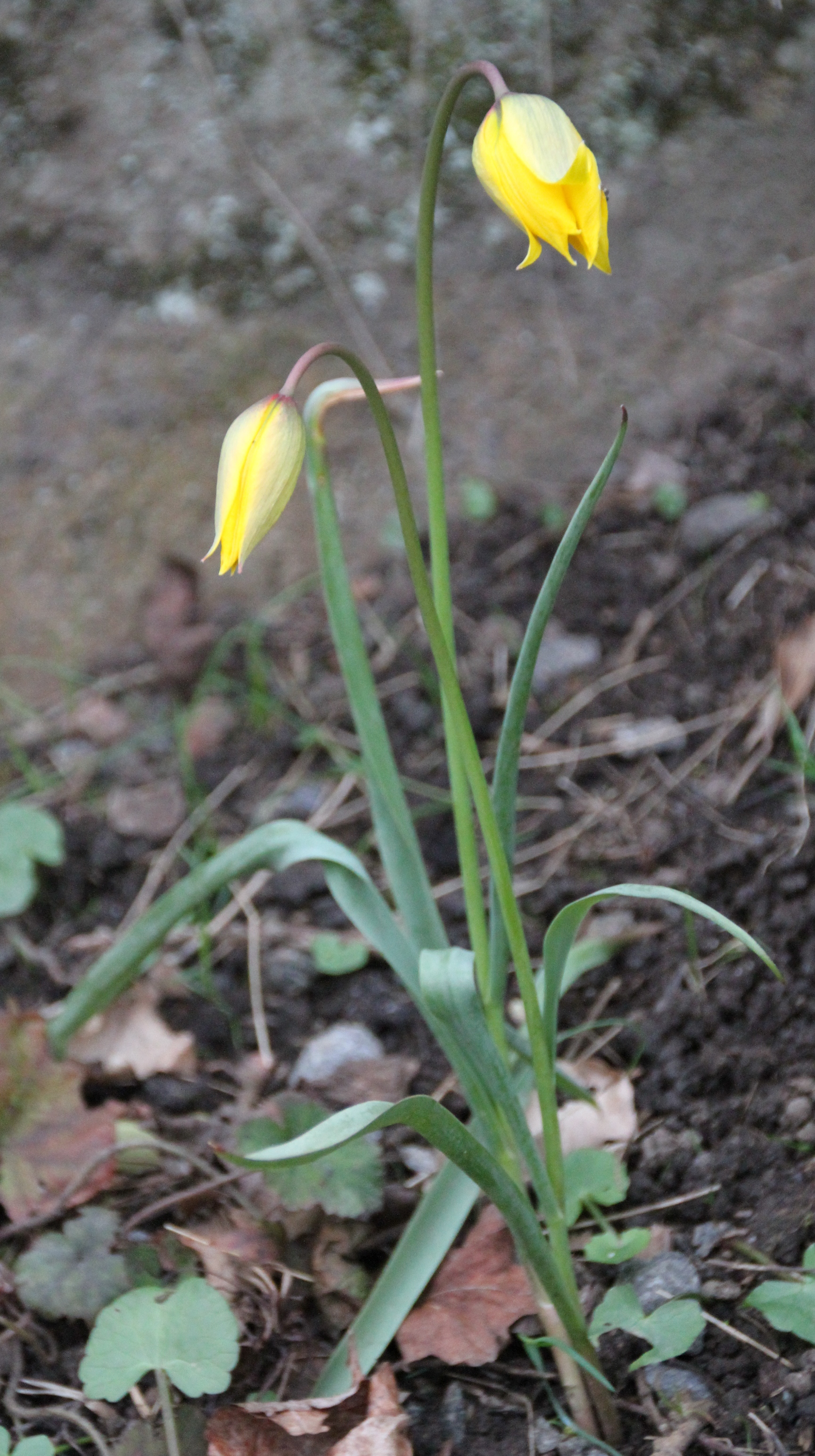 Image of a Tulipa sylvestris (Forest tulip), in the Wahlgrenska Garden in the city of Kungälv, Sweden